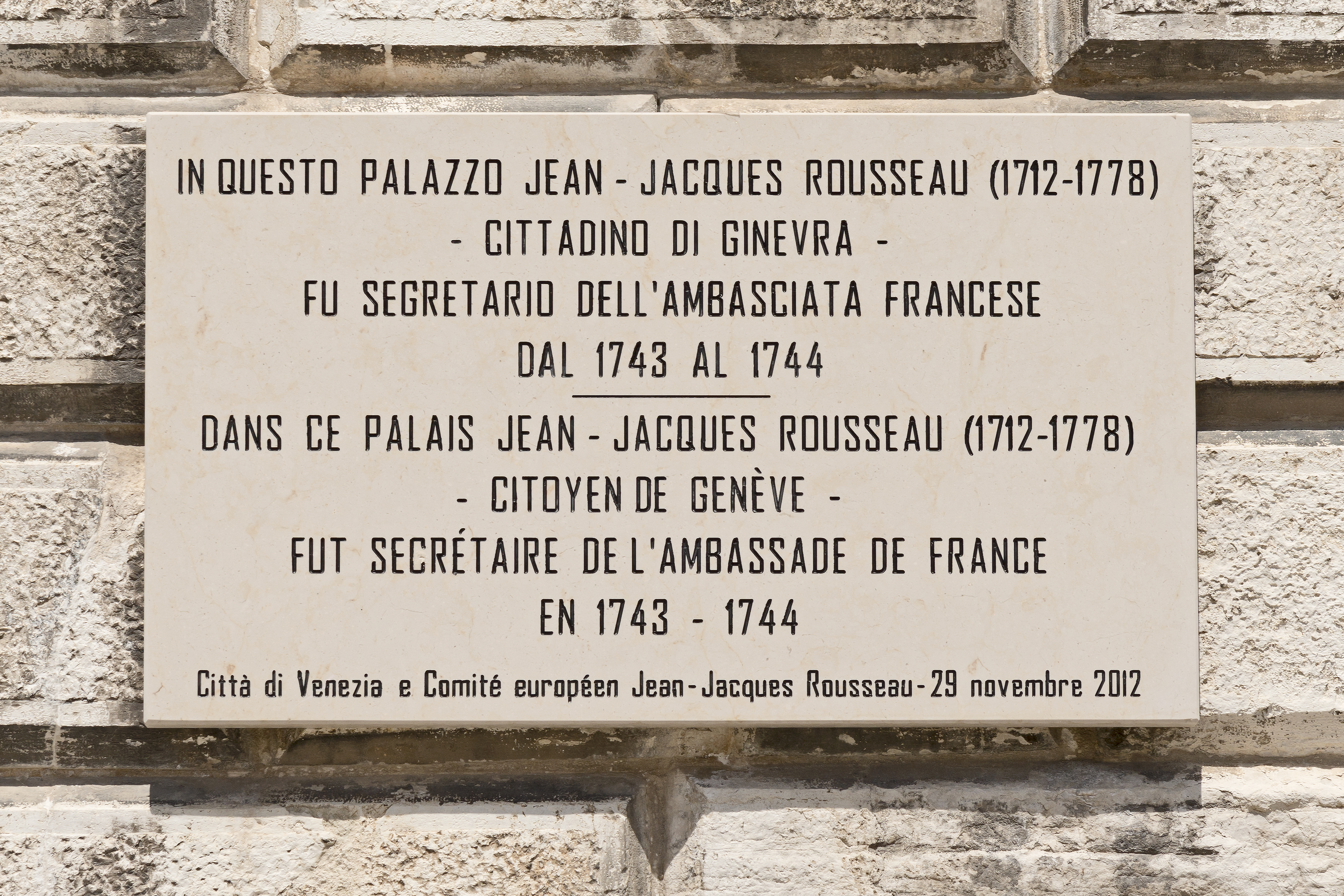 Palace Surian Bellotto in Venice - Jean Jacques Rousseau - Commemorative plaque on the facade of the palace, view of the Cannaregio Canal.